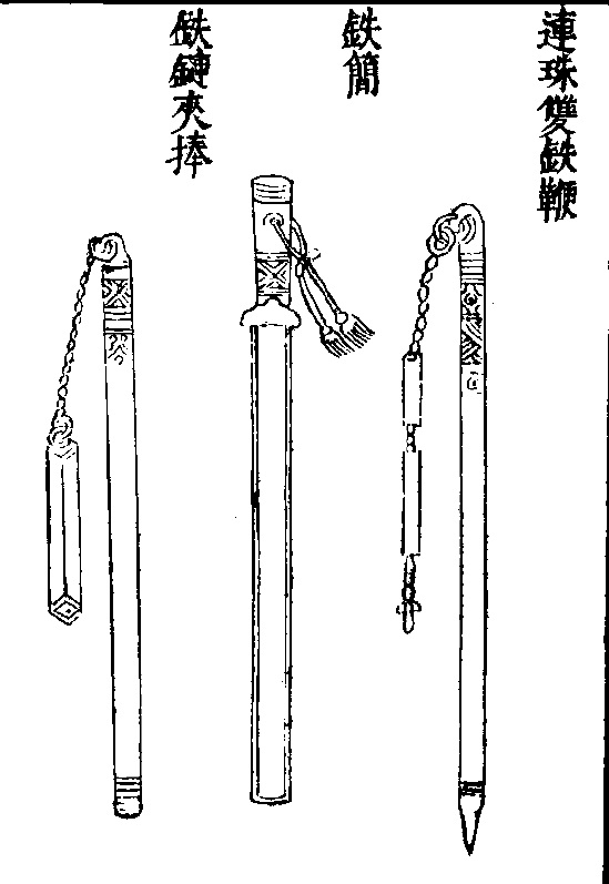 Flails and tie jian.